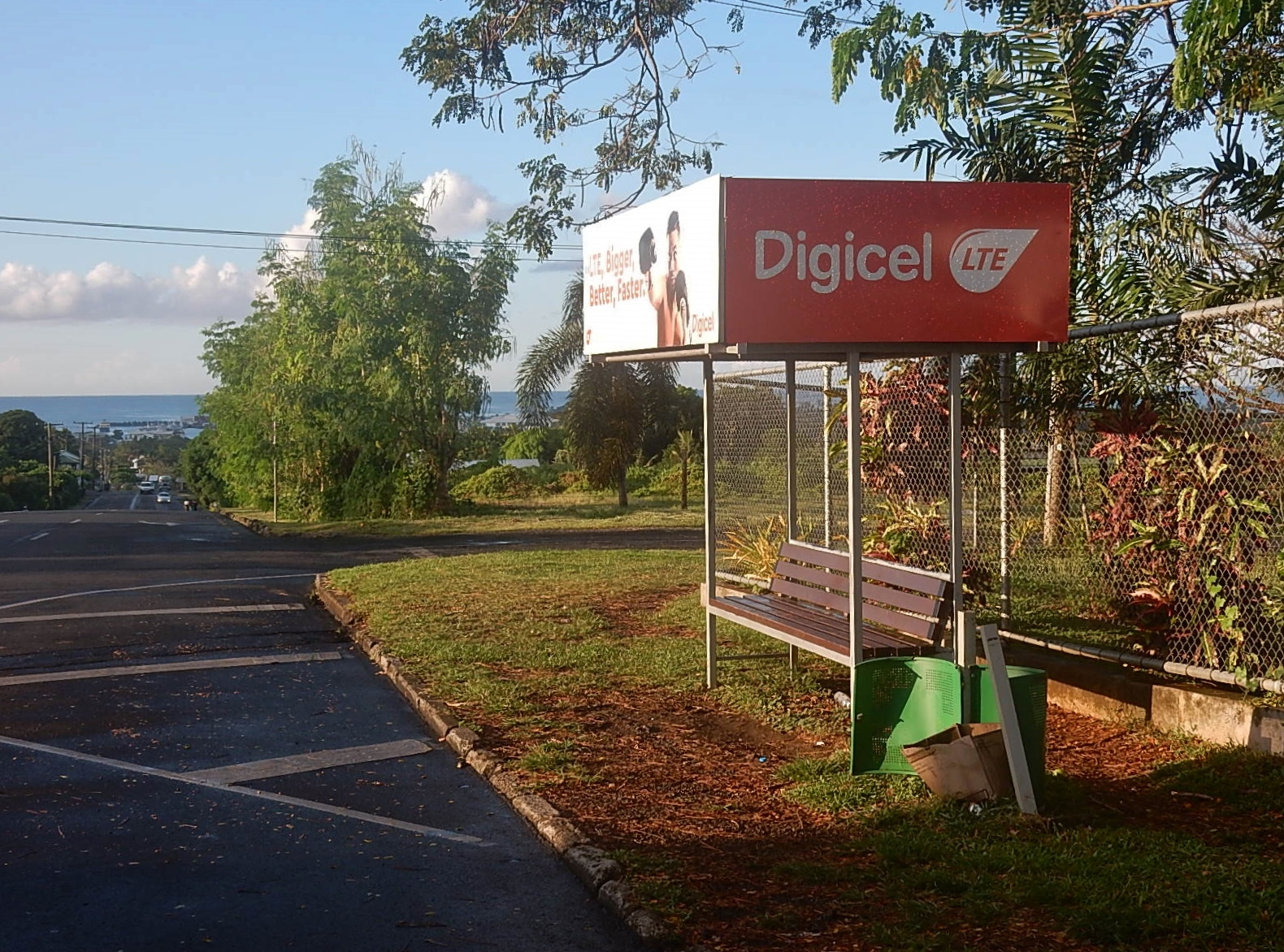 Digicel Bus Stop